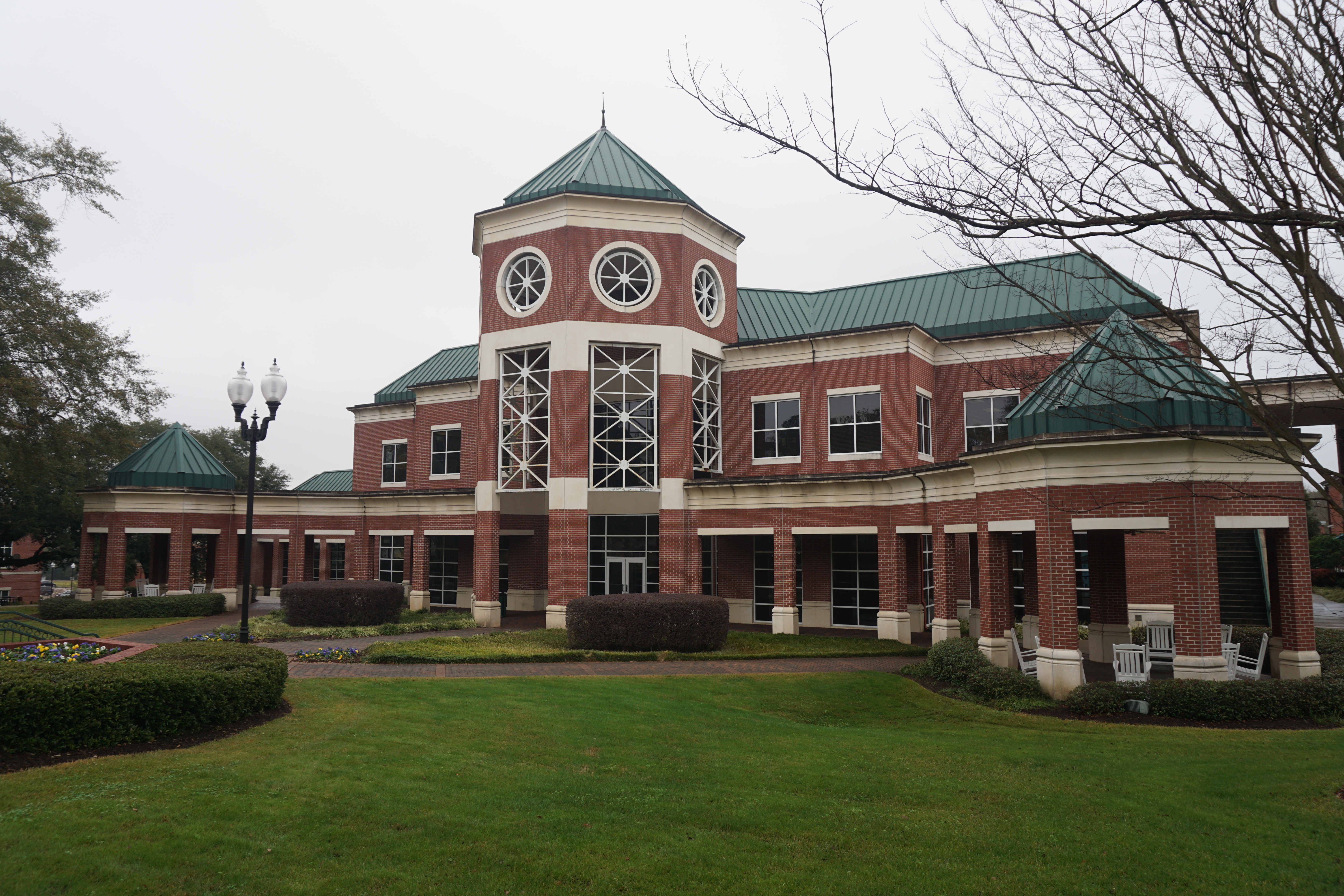 The McCravey-Triplett Student Center on the campus of Belhaven University in Jackson, Mississippi (United States).